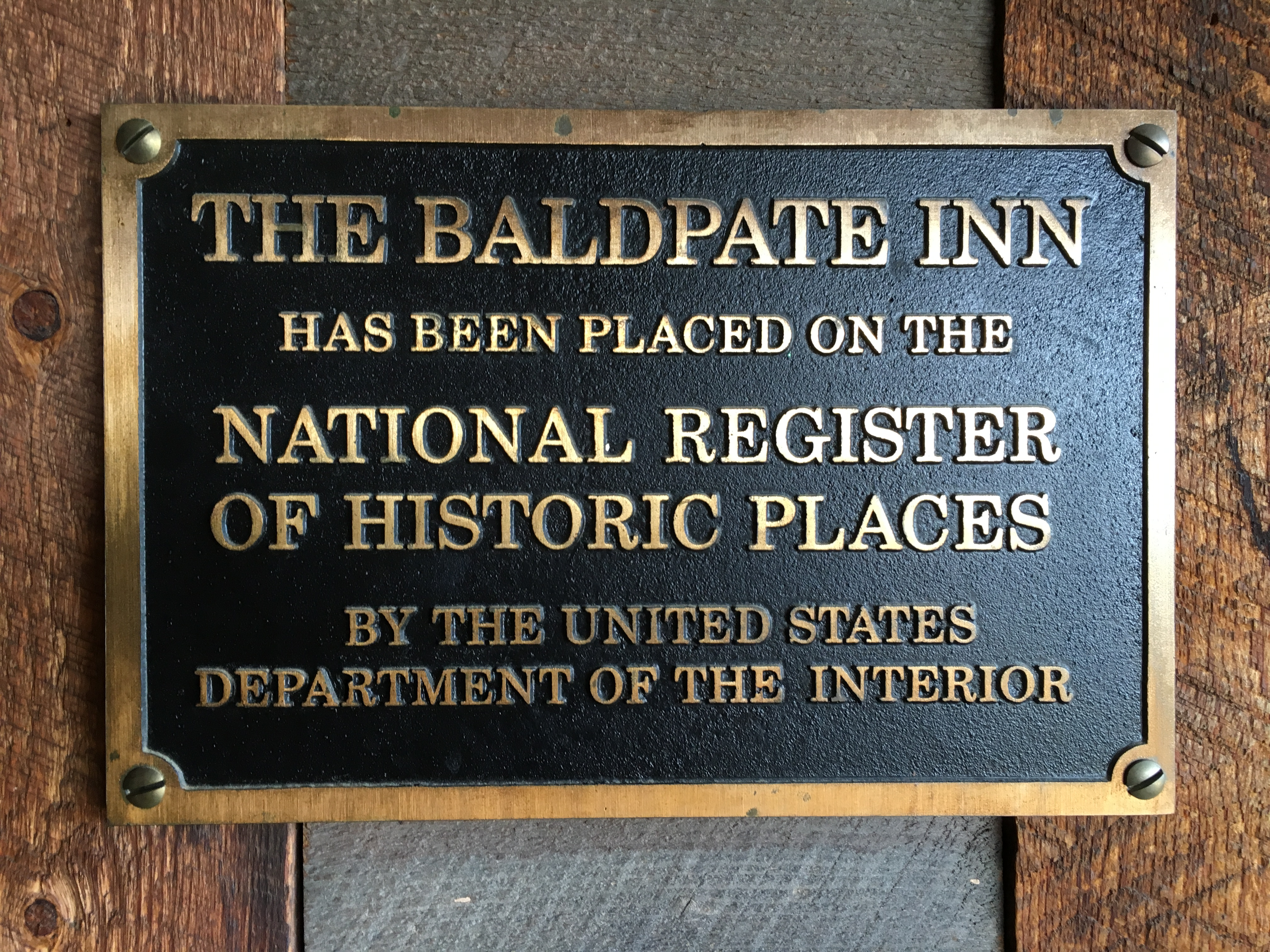 A closeup shot of the Baldpate Inn's metal plaque from the National Register of Historic Places.